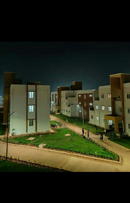 Not hostels night scene